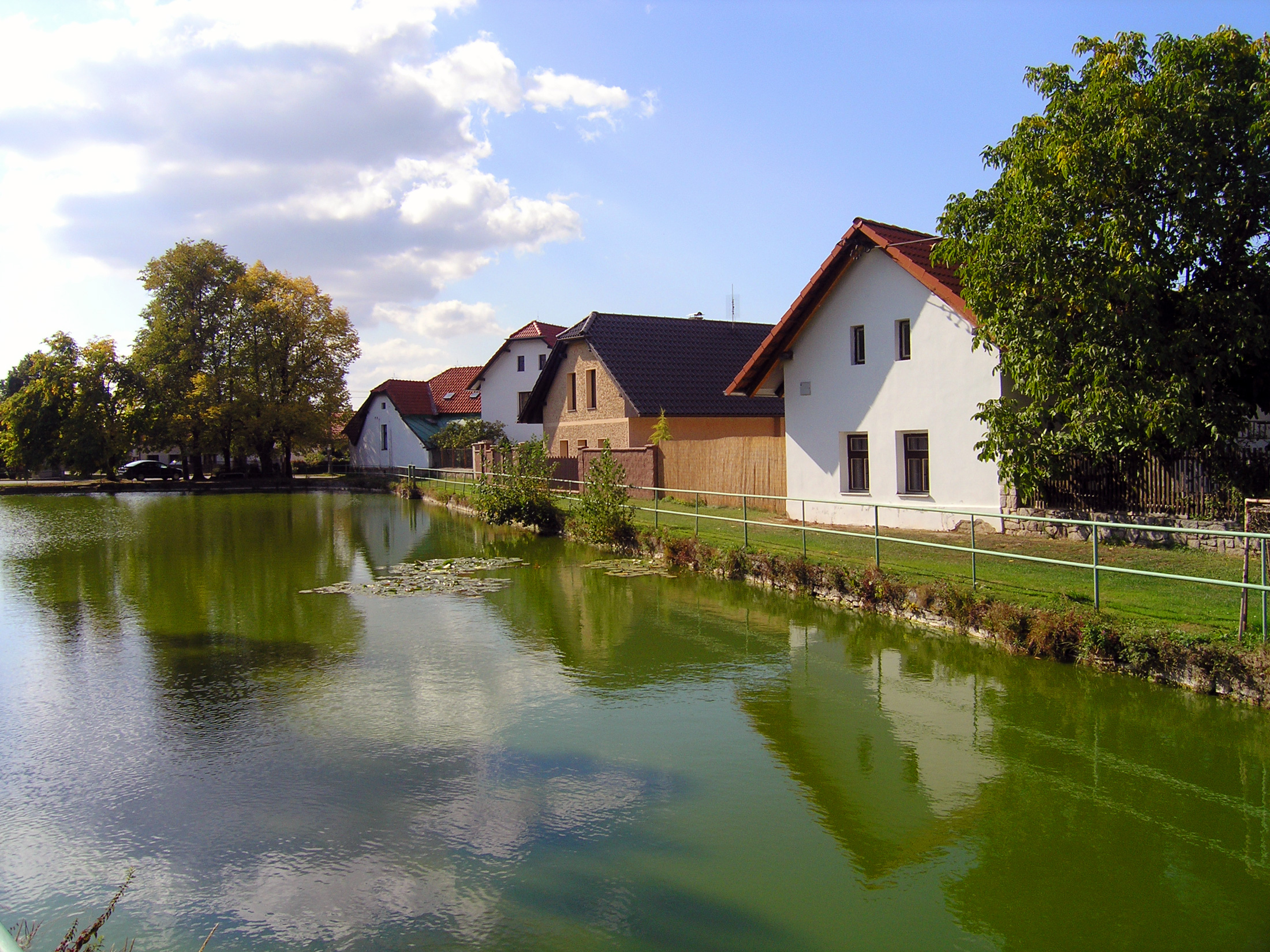 Pond in Doubek, Czech Republic